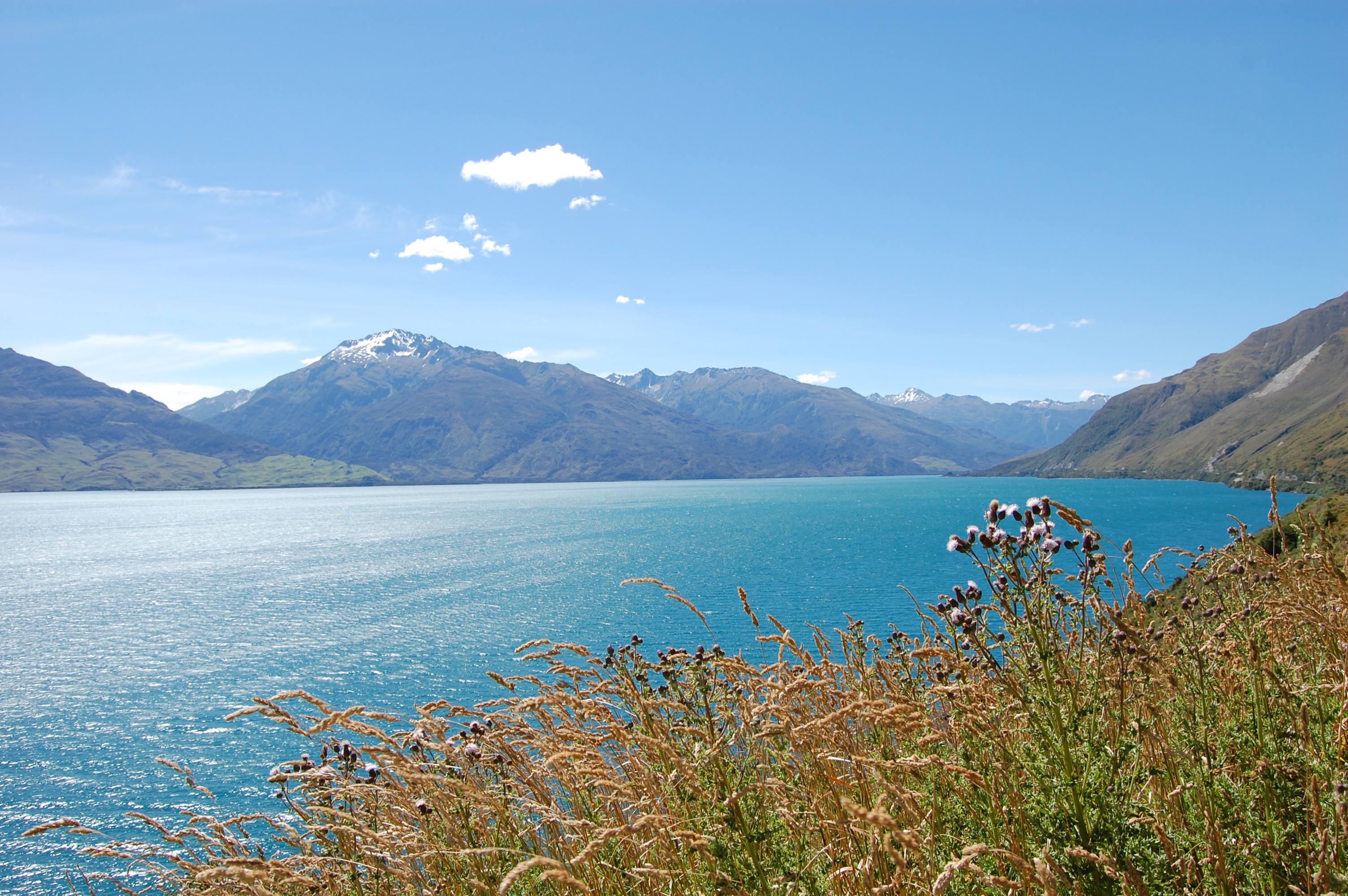 Lake Wanaka showing very blue color on a sunny day.